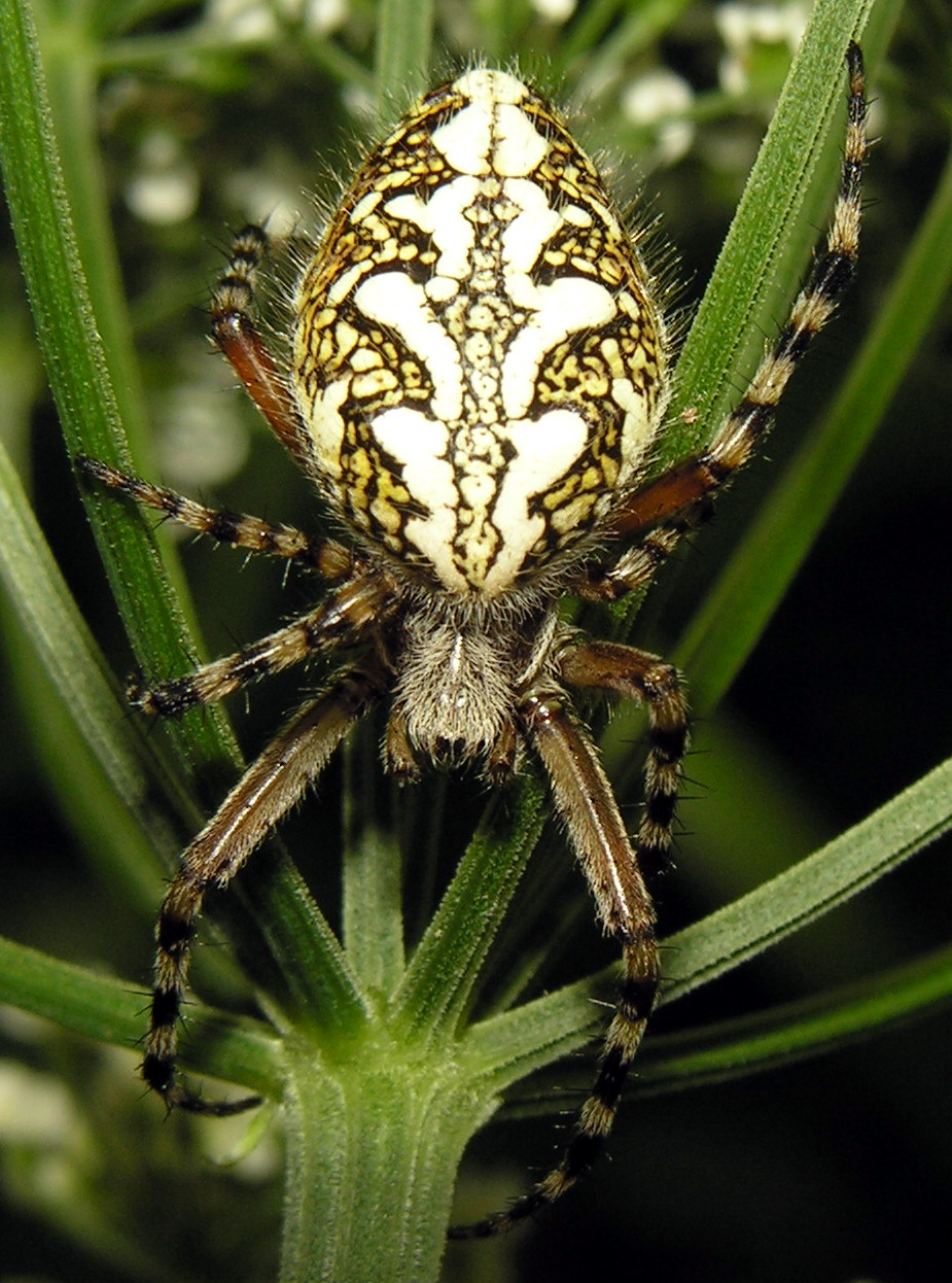 This image was copied from lt. The original description was: Aculepeira ceropegia Fam. Araneidae Foto: Algirdas, 2006 m. birželio 24 d.